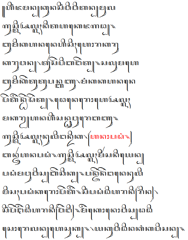 Genesis 1:1-5 in Javanese script